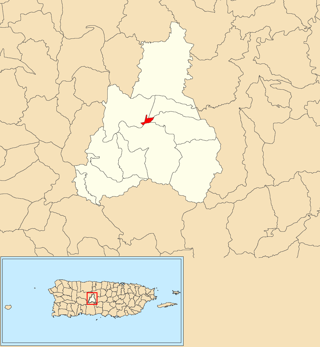 Jayuya barrio-pueblo, Jayuya, Puerto Rico locator map